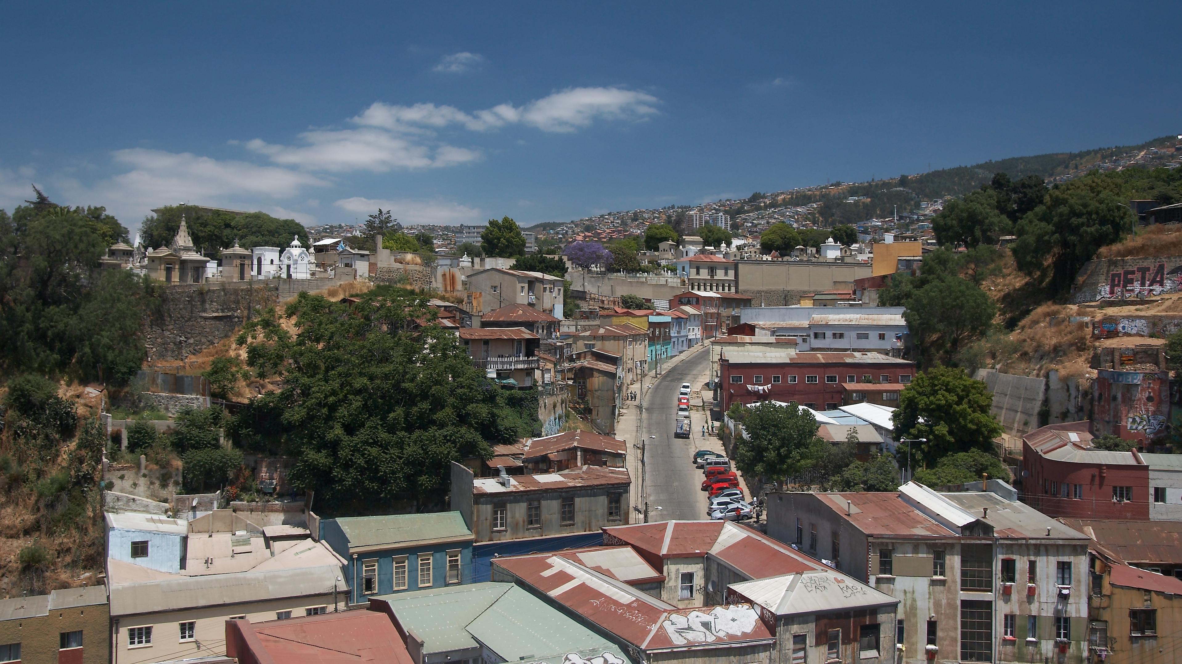 Valparaíso, Chile.